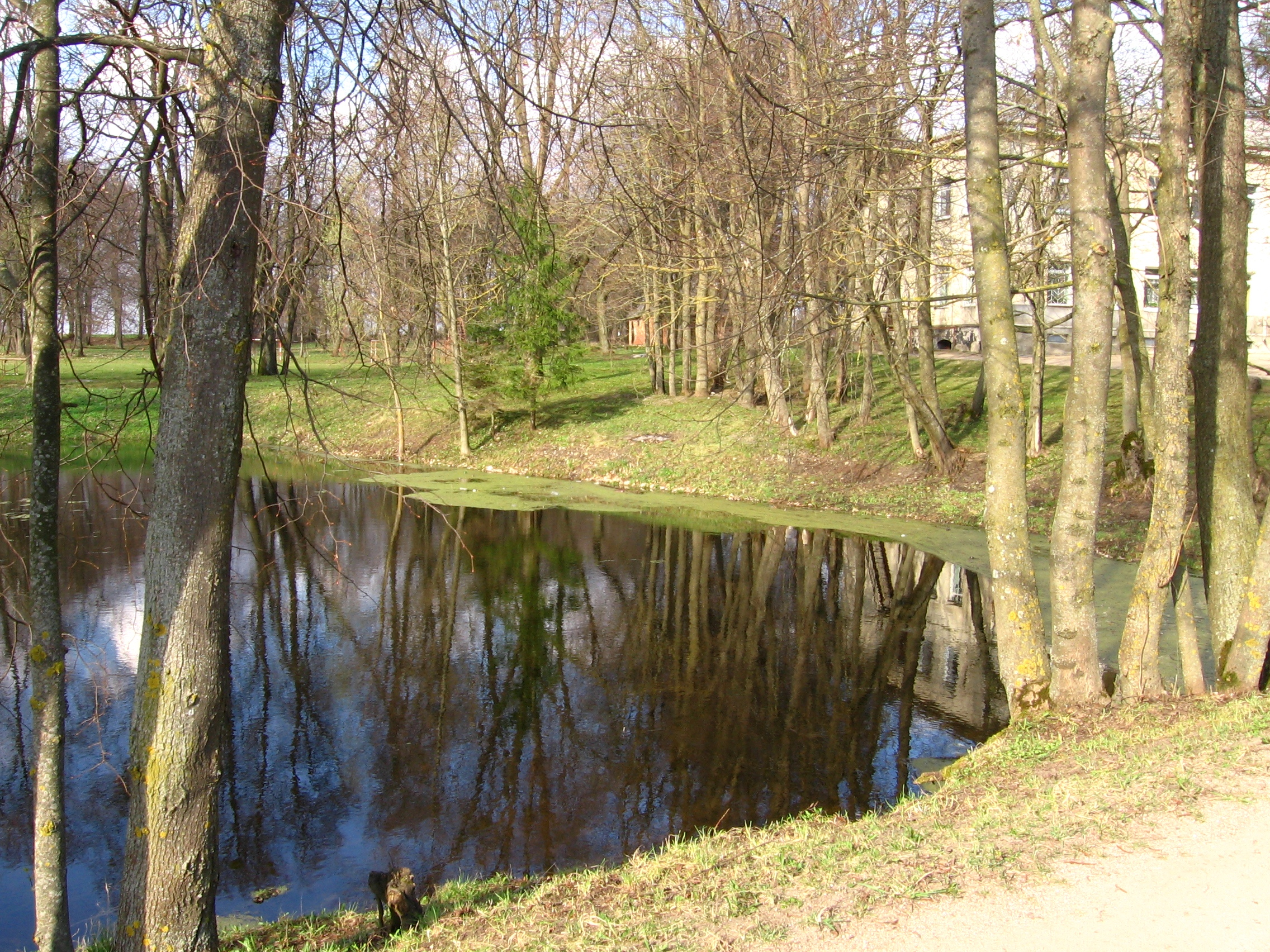 View of Ašminta park, Prienai district, Lithuania